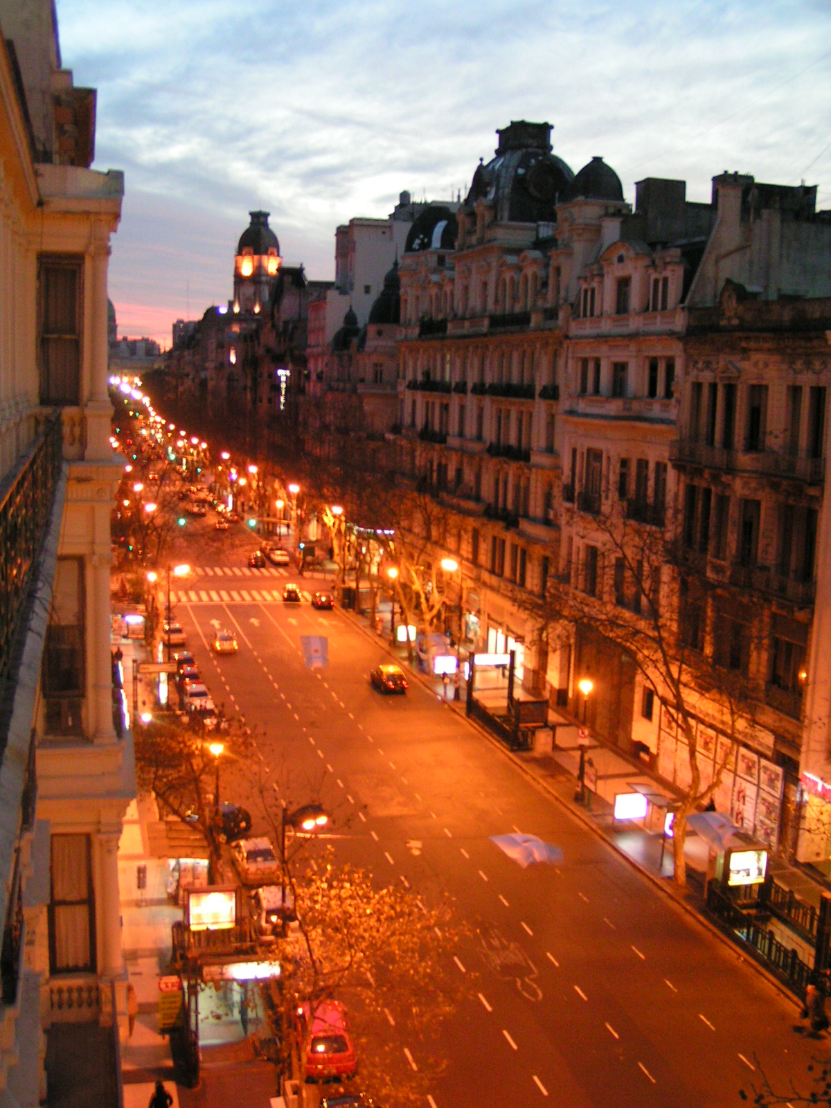 Picture of Avinda de Mayo in Buenos Aires taken from the intersection with Avenida 9 de Julio.